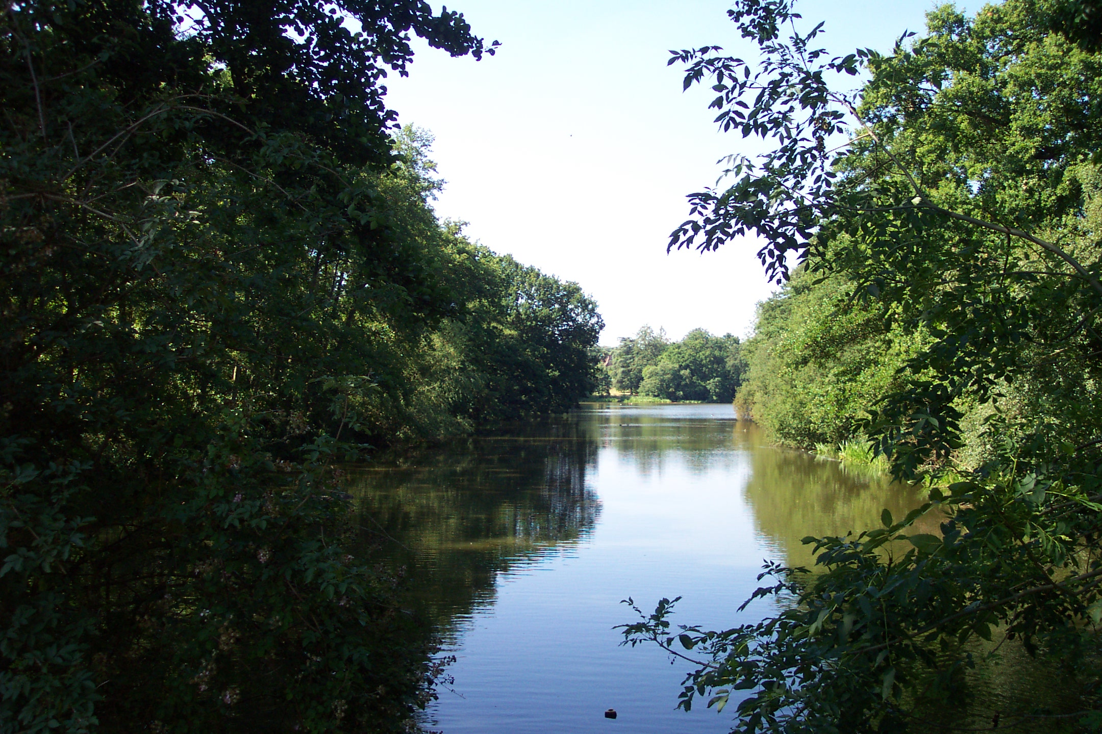 The lake at the Whiteknights Park campus of the University of Reading, in the town of Reading in the English county of Berkshire. For more information see the Wikipedia article Whiteknights Park.